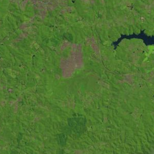 Landsat image of the Colônia crater, a probable eroded impact crater south of São Paulo, Brazil, South America. The crater is the relatively flat area surrounded by hills in the center of the image. Part of Billings Reservoir (Represa Billings) is in upper right.